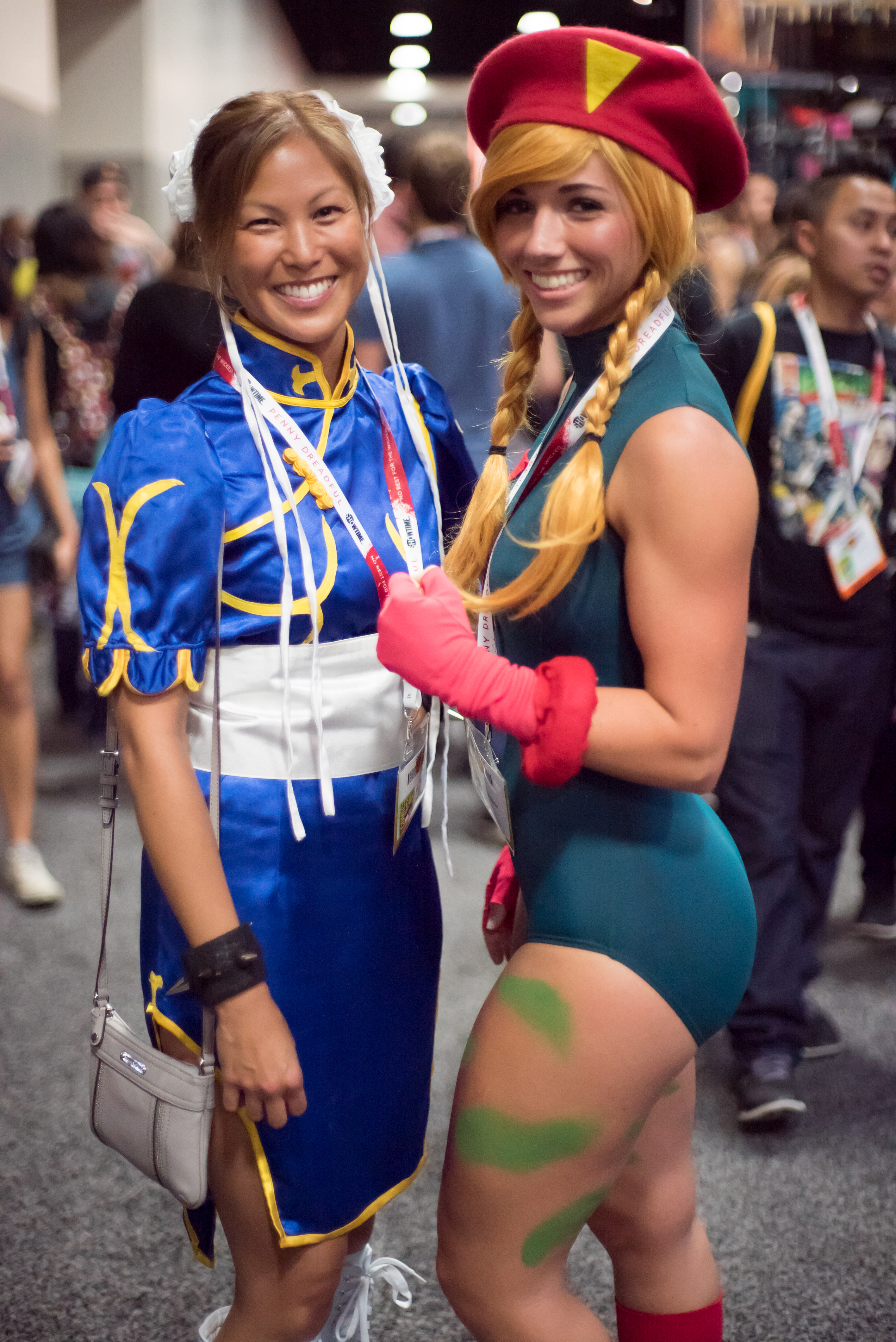 Street Fighter Cosplay Cosplay at San Diego Comic Con 2015.